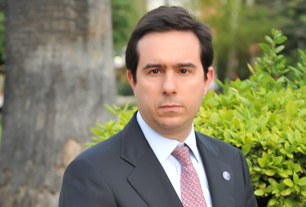 Notis Mitarachi, Vice Minister for Development & Competitiveness, MP Athens A, New Democracy Party